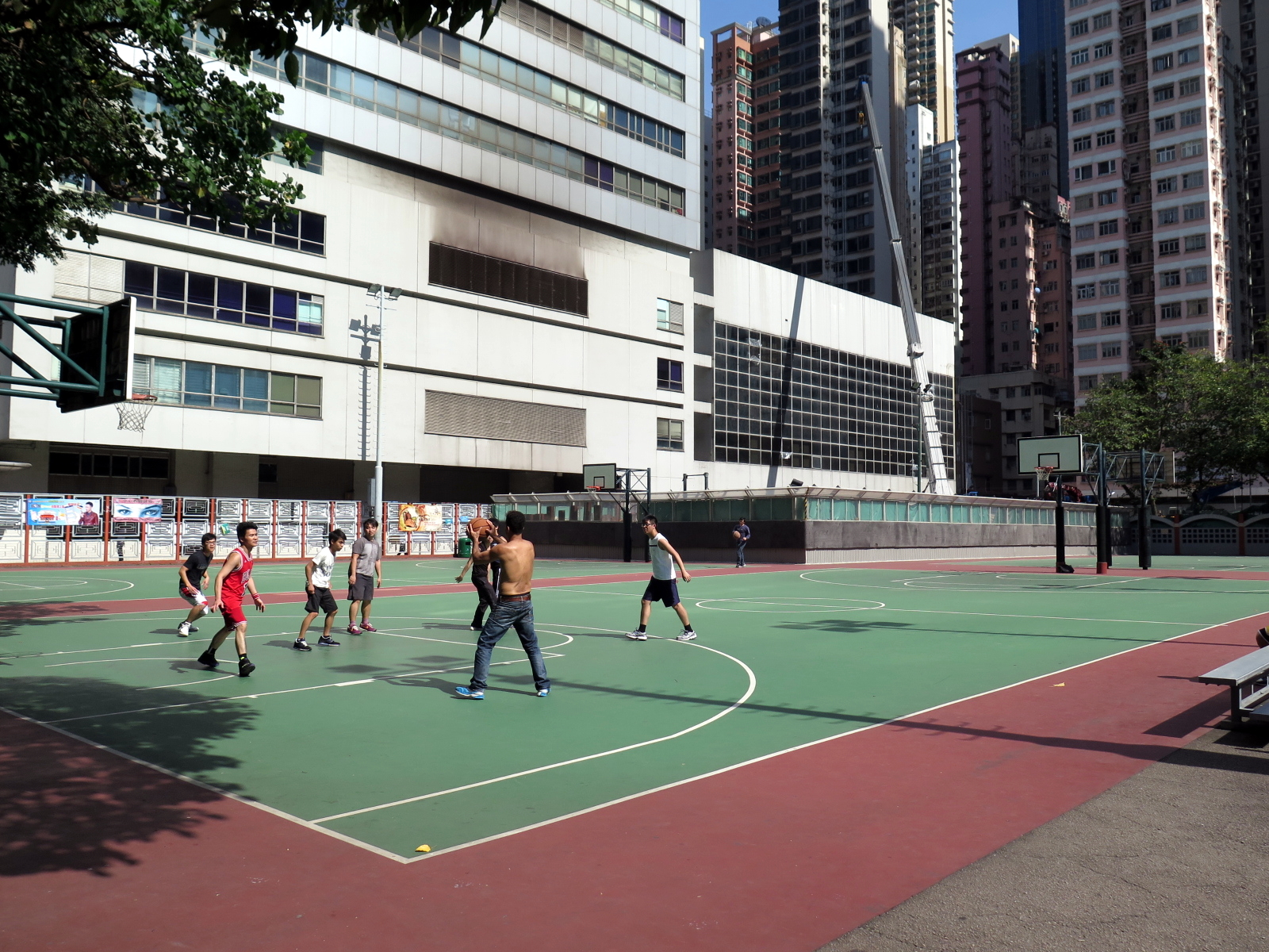 Southorn Playground Basketball Court